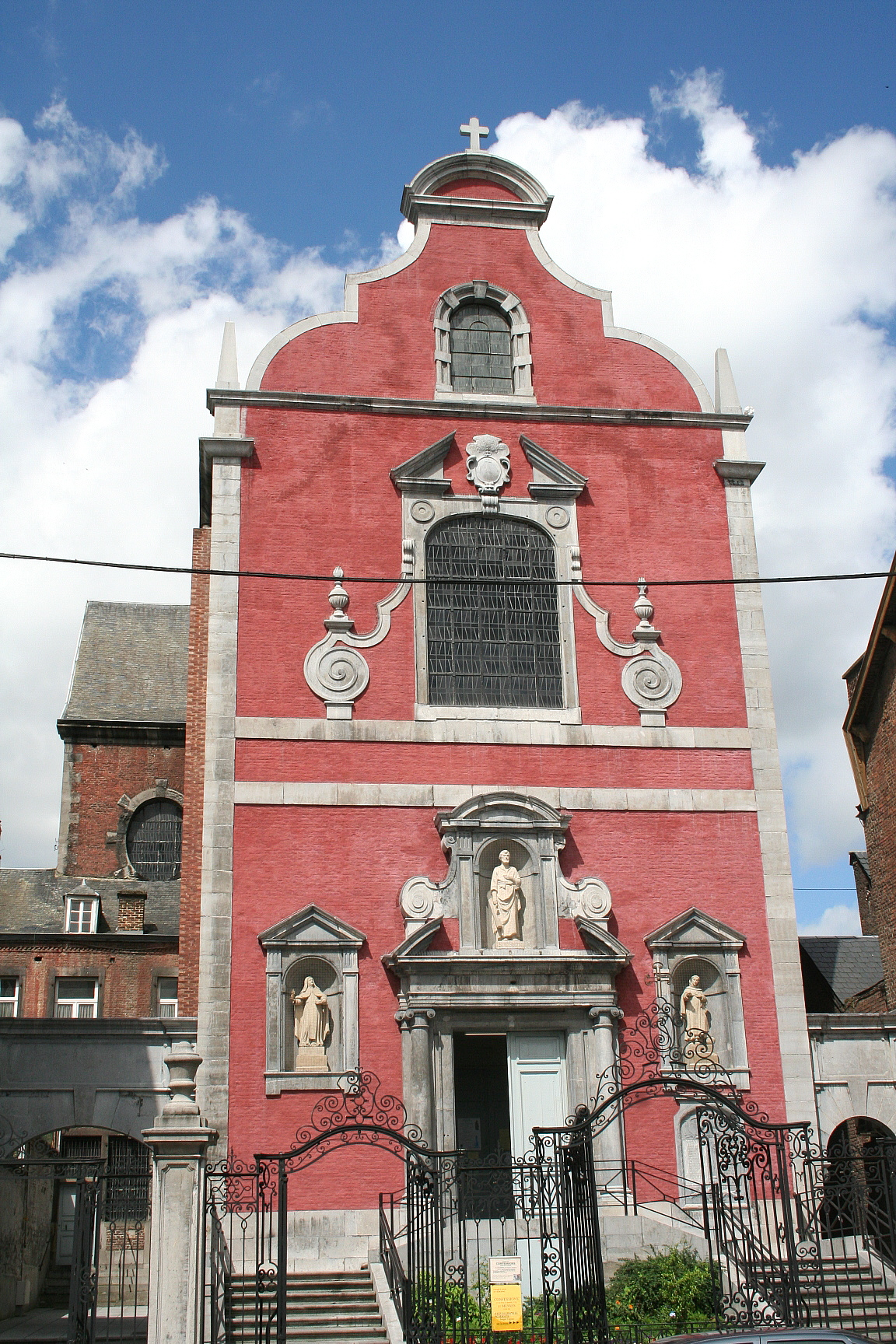 Namur (Belgium), the St. Joseph's church (XVIIth century).